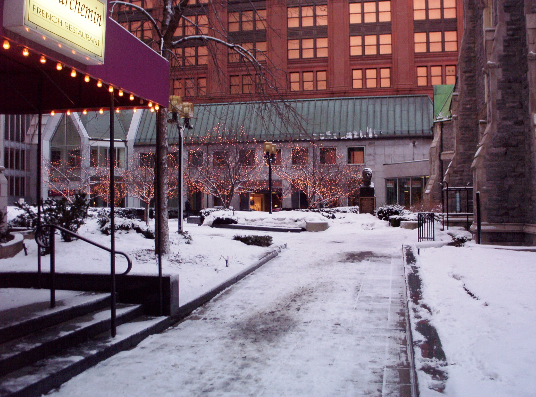 Summary: View of Raoul Wallenberg Square in Montreal, Québec Author: Colocho Date: January 22nd, 2006